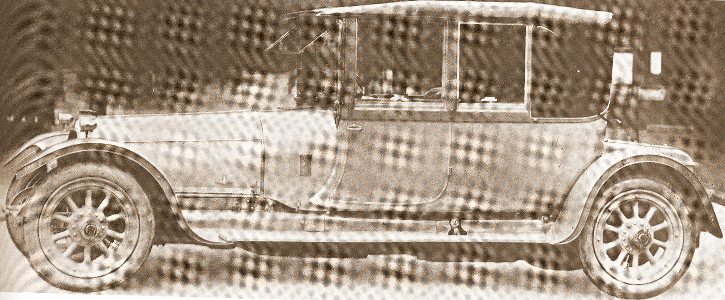 1914 Sheffield-Simplex 45 hp